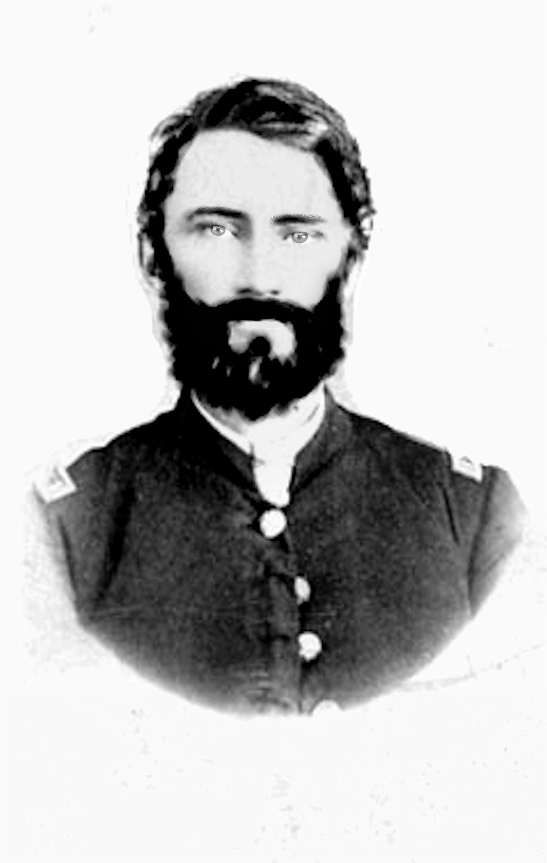 2LT Russell C Elliott, Medal of Honor, Company B, 3rd Massachusetts Volunteer Cavalry